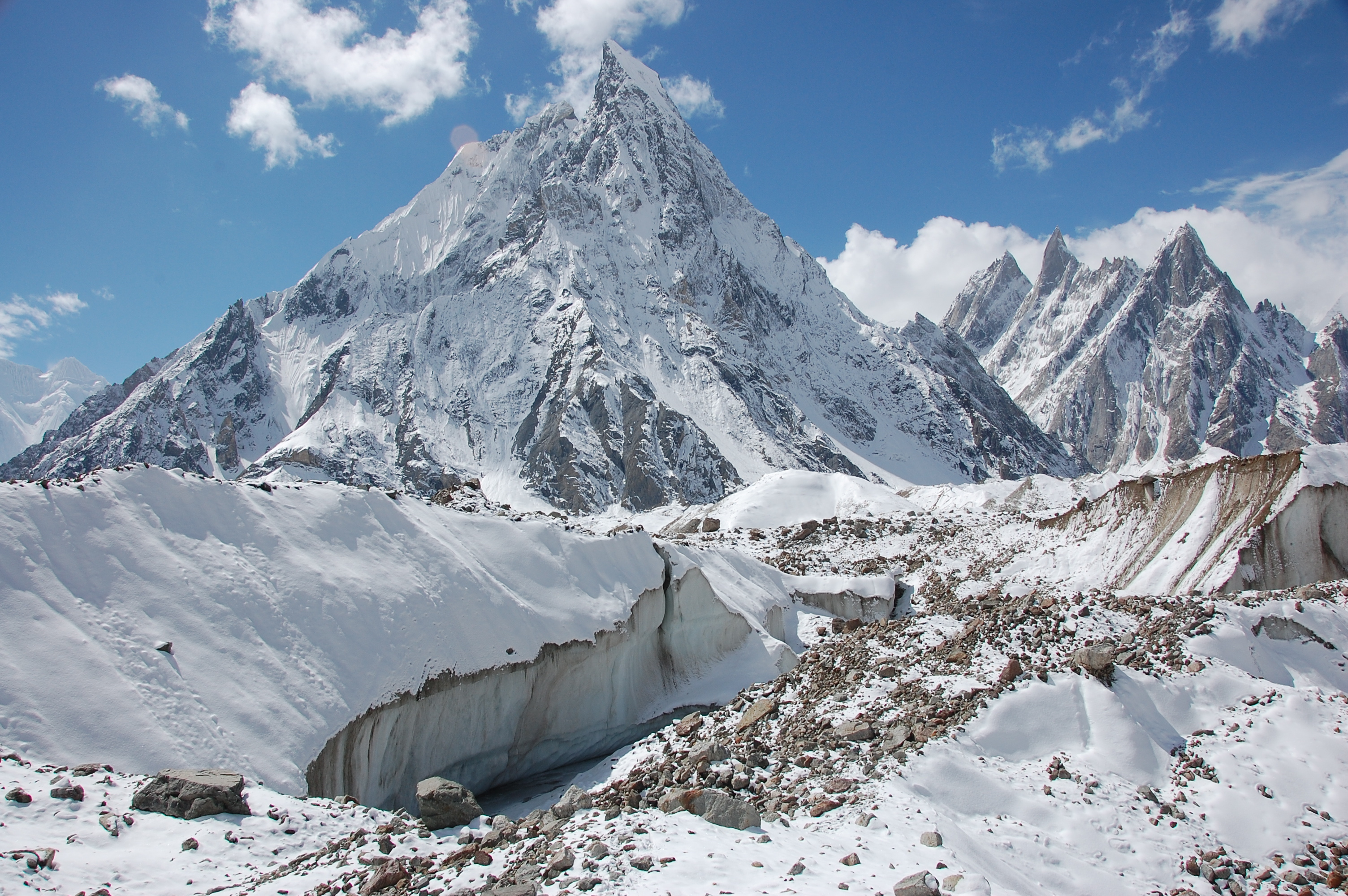 Mitre Peak on the south side of Baltoro glacier, near Concordia, Karakorams